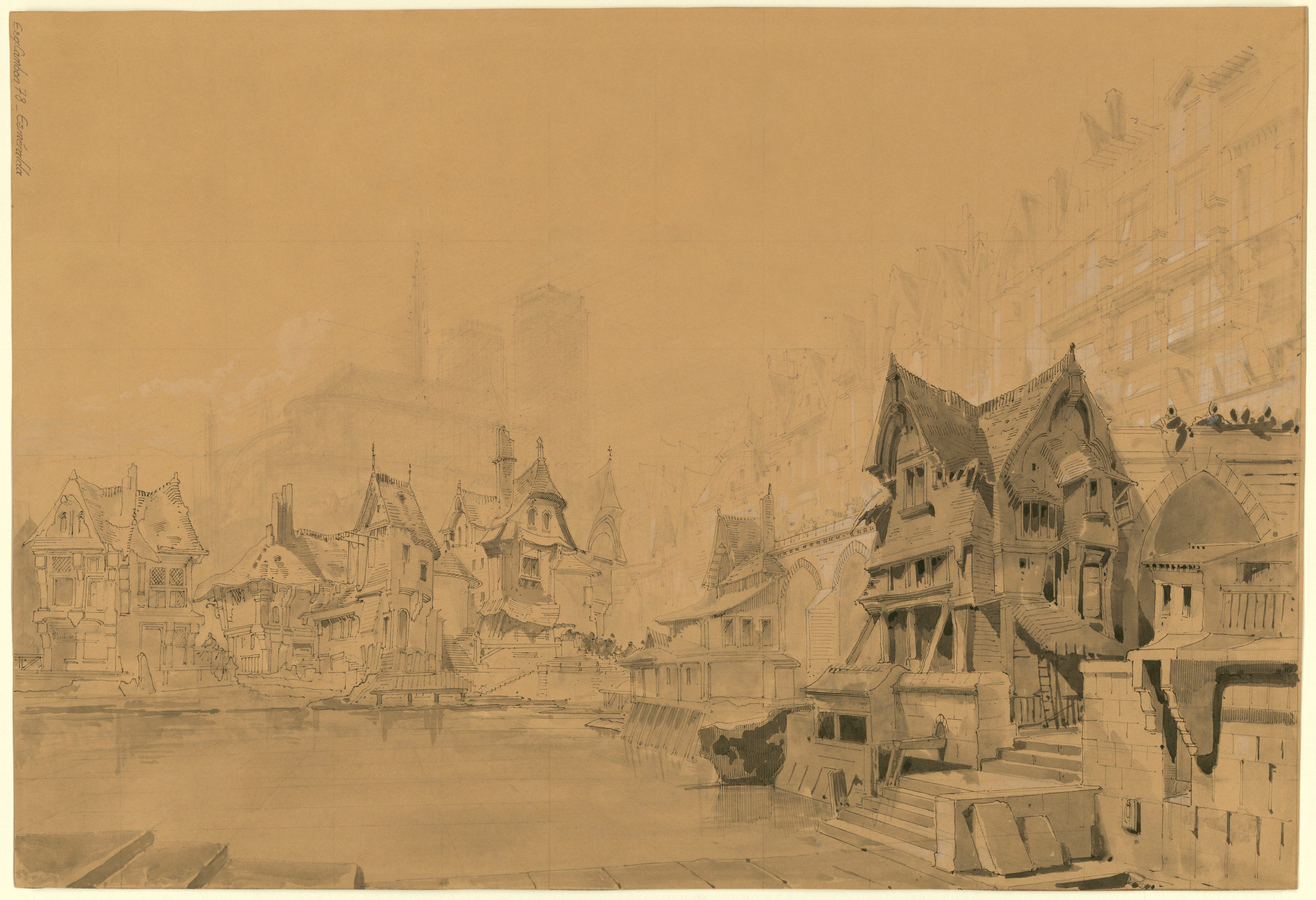 Sketch for the set of Act III, Scene 1 of La Esmeralda, an opera by Louise Bertin Note: Version numbering is arbitrary, but this does appear to be the more finished form. See File:Charles-Antoine Cambon - La Esmeralda, Act III, Scene 1 set design (Version 1) - Original.jpg for the other version.